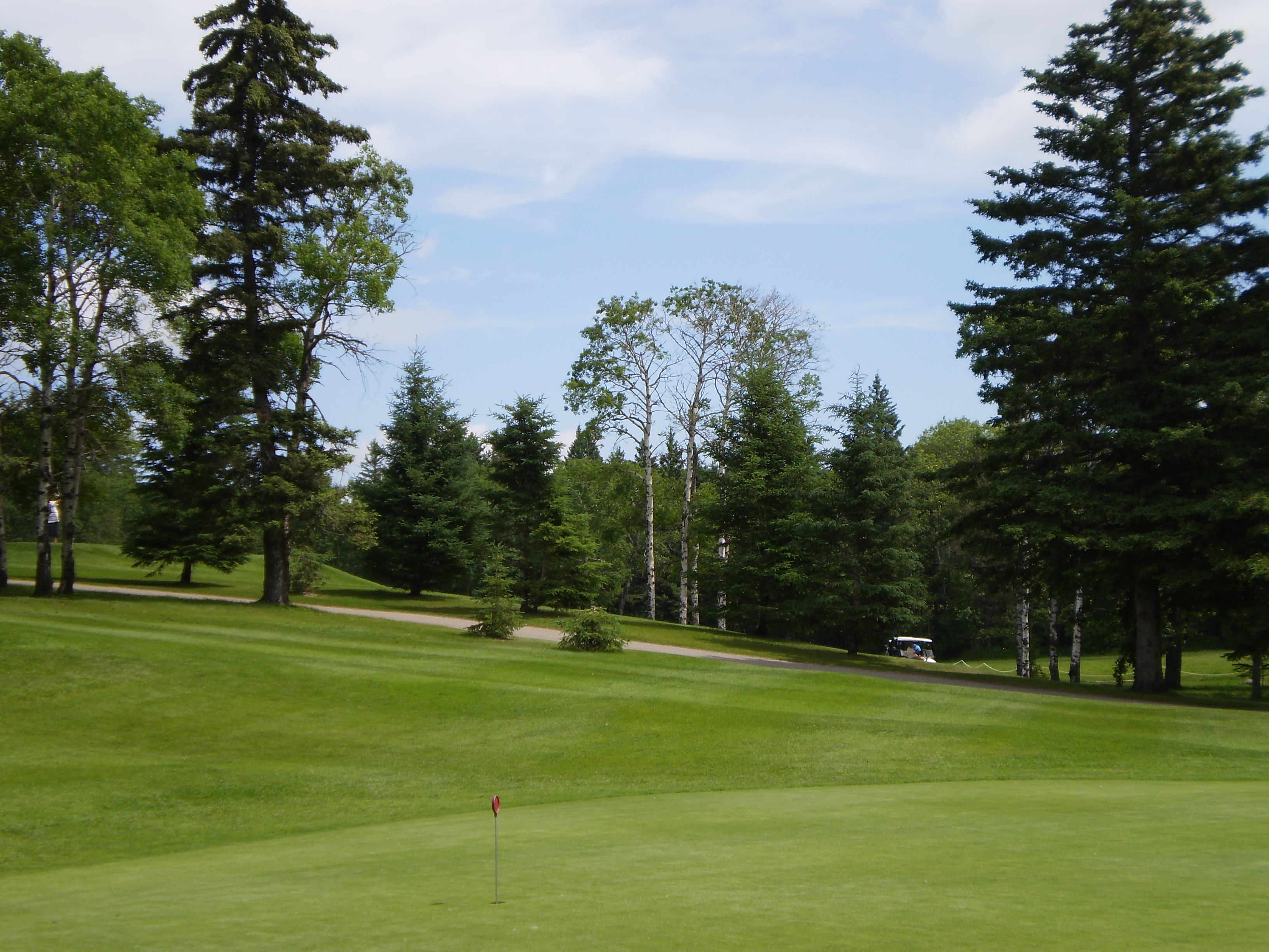 Riding Mountain National Park Manitoba Canada